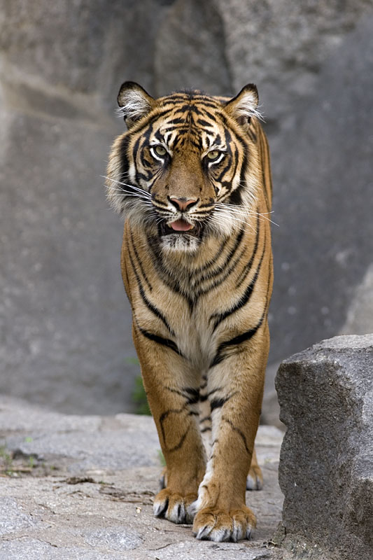 A tiger, photo taken 2005 by Bernard Landgraf